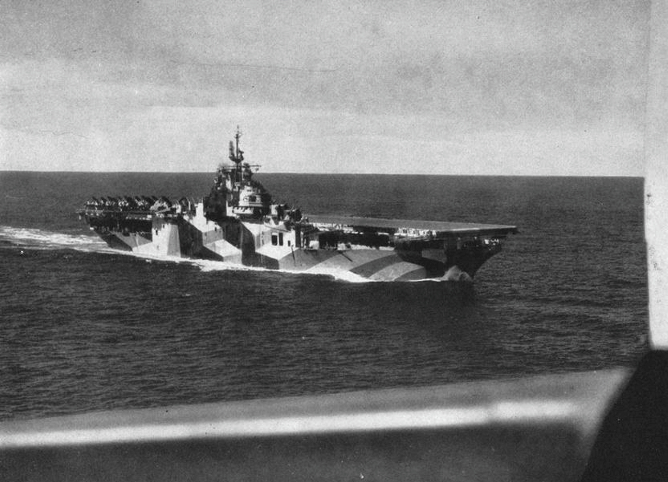 The U.S. Navy aircraft carrier USS Hancock (CV-19) underway at sea, circa in 1944. She is painted in Camouflage Measure 32, Design 3A.